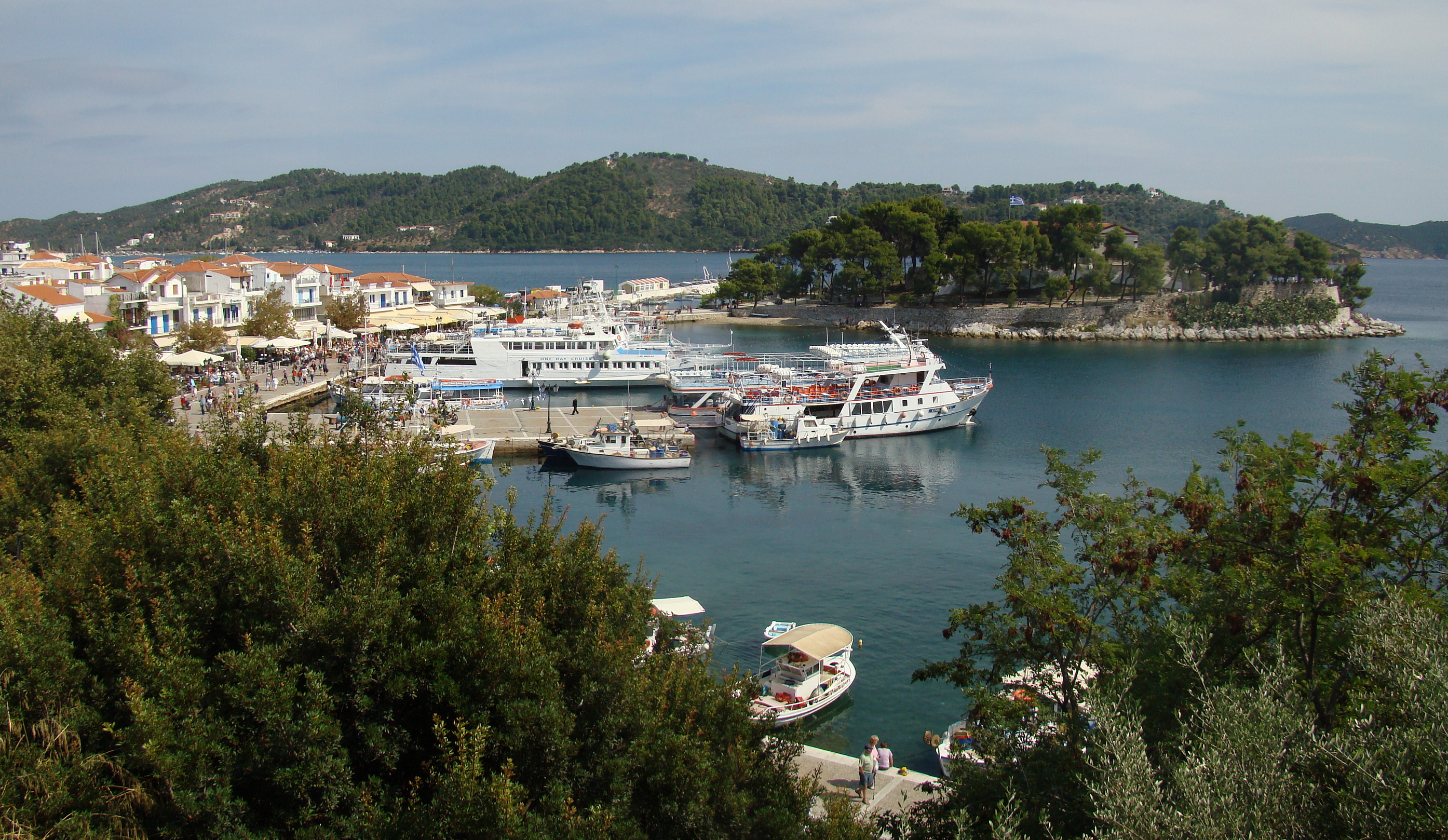 Skiathos town (Chora), Greece.